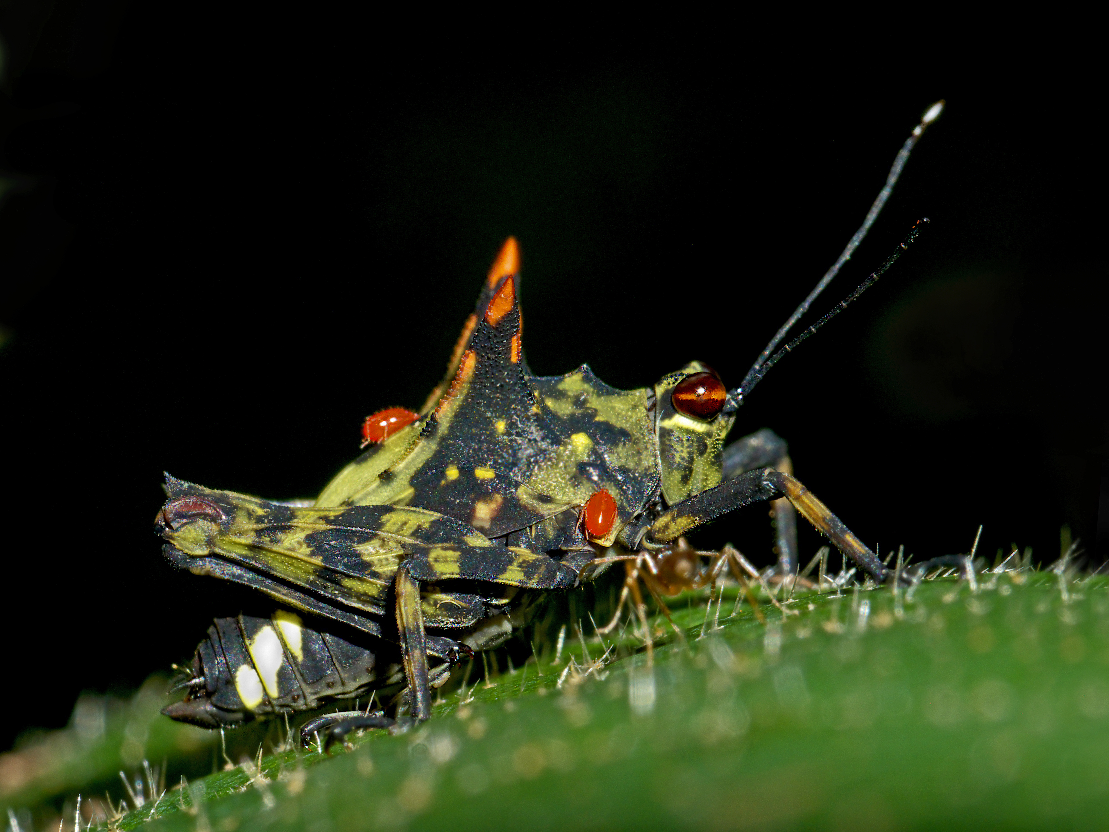 Many thanks to Paul Bertner for the species identification! Panasonic GX7 + Leica DG Macro-Elmarit 45mm F2.8 ASPH OIS